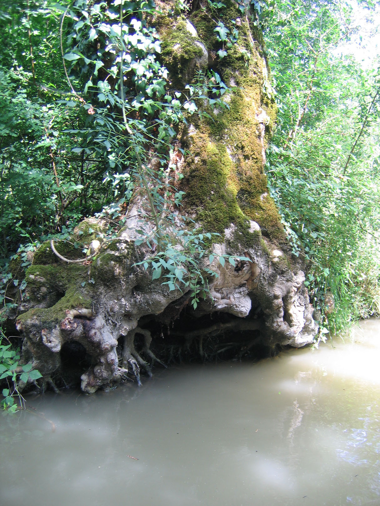 Tree stump by a canal in the Marais Poitevin, France.